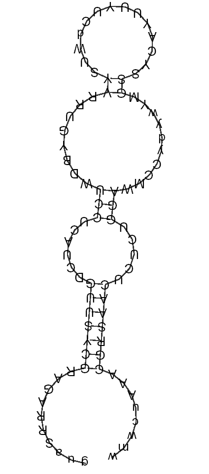 RNA secondary structure of TB10Cs5H3 generated by the WAR server( It is the consensus structure from 8 Trypansomatid species -Leishmania major, Leishmania infantum, Leishmania braziliensis, Trypanosoma brucei, Trypanosoma brucei gambiense, Trypanosoma cruzi, Trypanosoma congolense, Trypansoma vivax